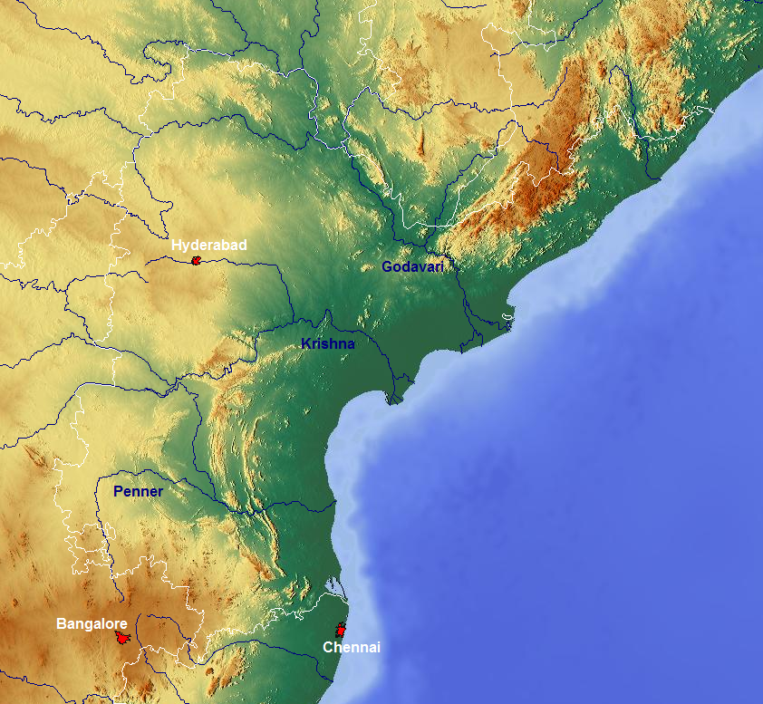 Topographic map of Andhra Pradesh (without legend)